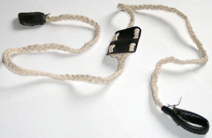 Ragzouken made this sling himself using braiding methods from Braided string and sewn leatherette.